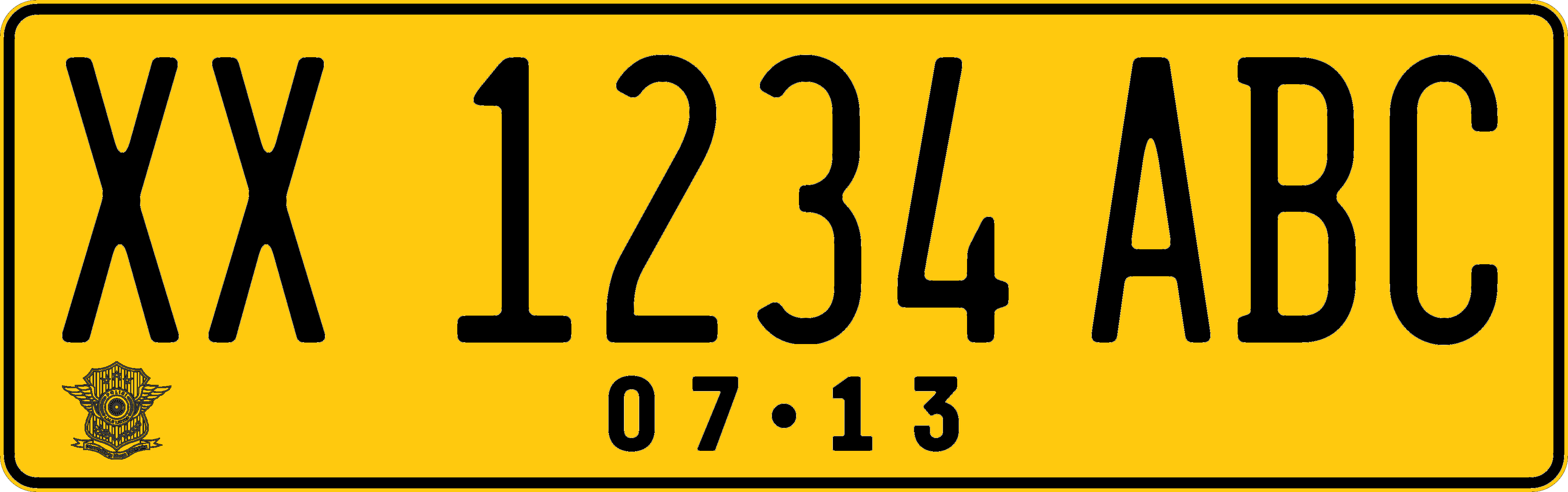 yellow commercial plate